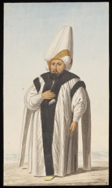 The Sadrazam or Grand Vizier of the Ottoman Empire